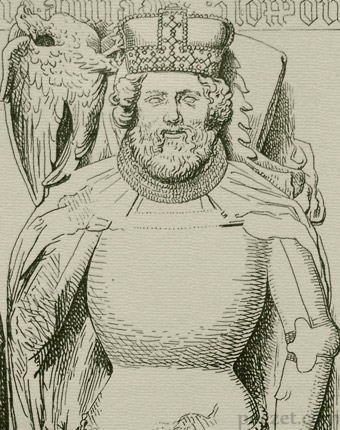 Boleslaus (Bolko) III of Opole and Strzelce